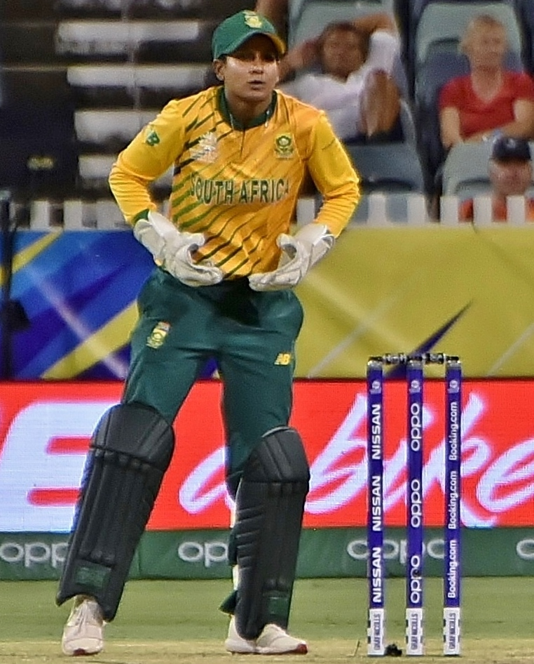 Trisha Chetty keeping wickets for South Africa against England during their 2020 ICC Women's T20 World Cup match at the WACA Ground in Perth, Australia